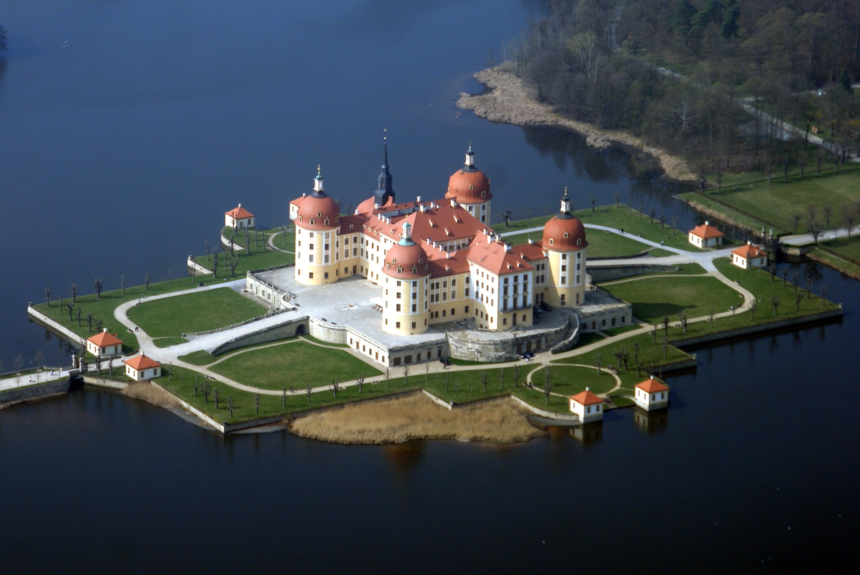 Aerial View: Moritzburg Castle from Southeast